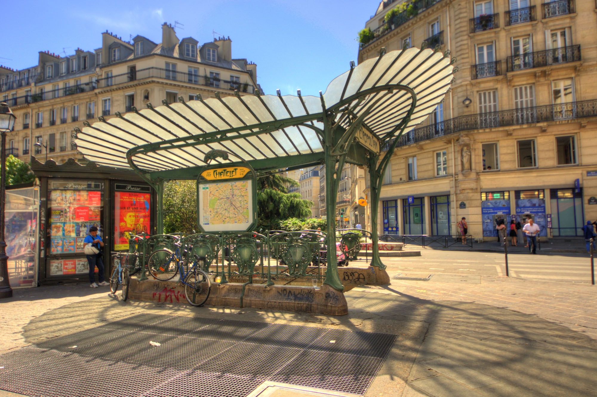 Chatelet